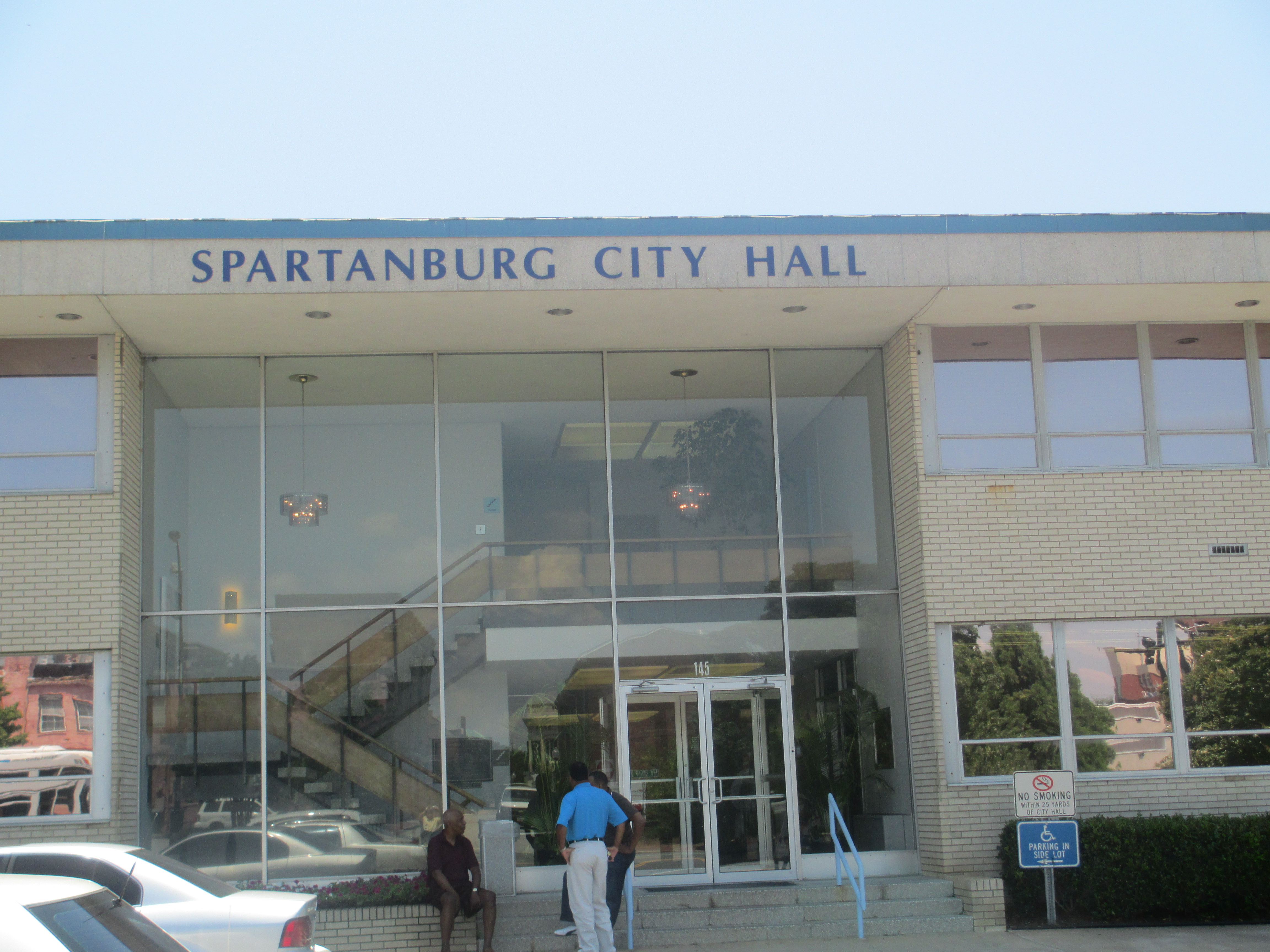 I took photo with Canon camera of Spartanburg, SC, City Hall.